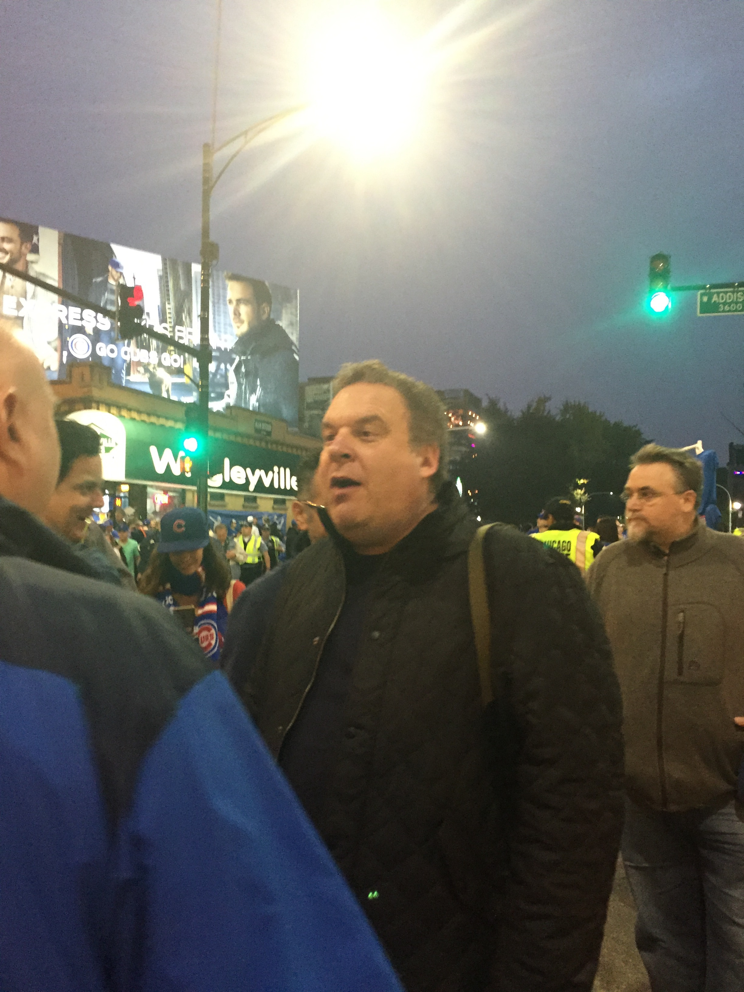 Comedian Jeff Garlin among the crowd outside of Wrigley Field ahead of the Game 4 of the 2016 World Series. Garlin later gave a pre-game pep rally to the crowd gathered in Wrigley prior to the game. Also worth noting is the Express billboard in the background featuring Chicago Cubs star Kris Bryant